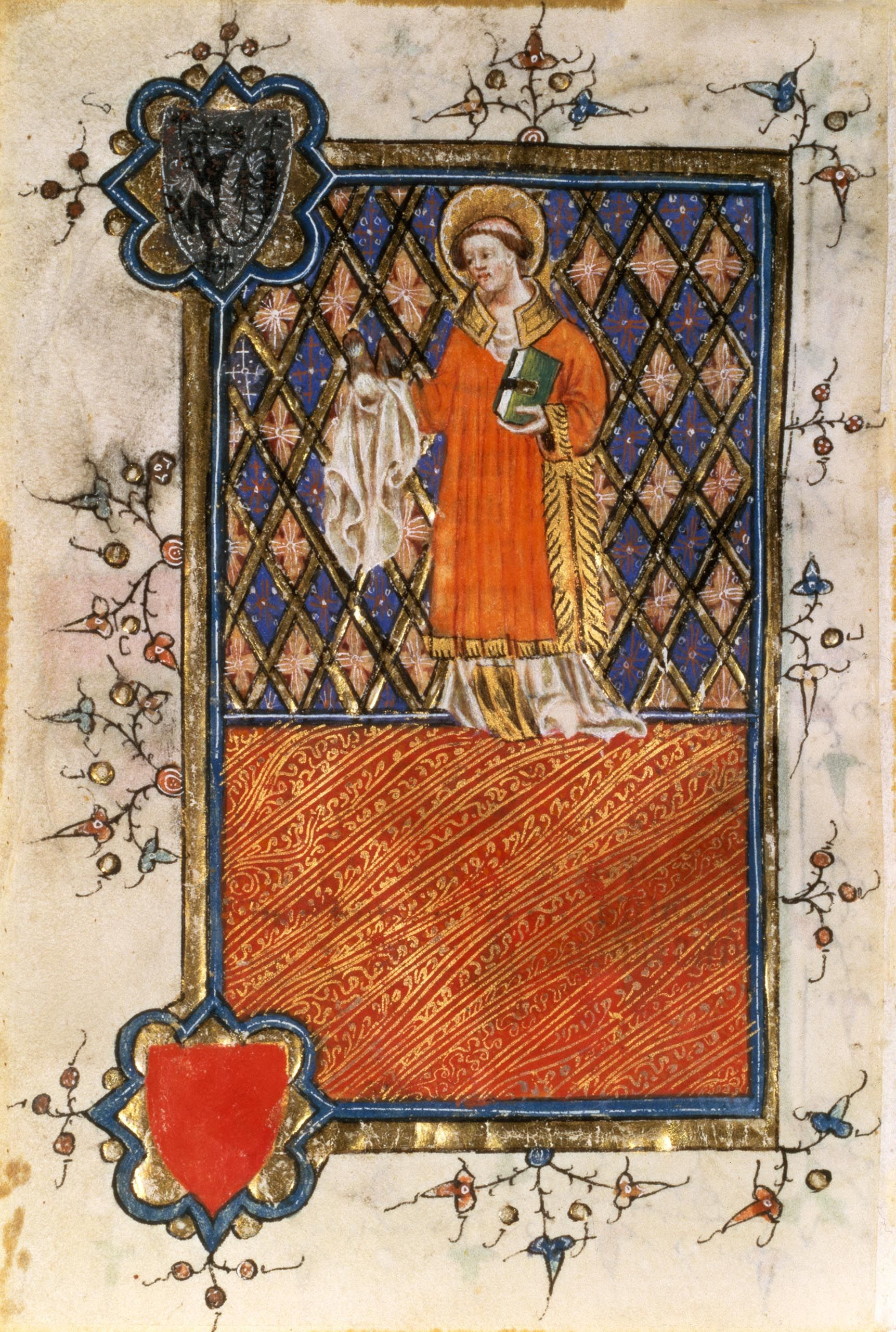 maybe St. Barnabas. Manuscript Illuminations.